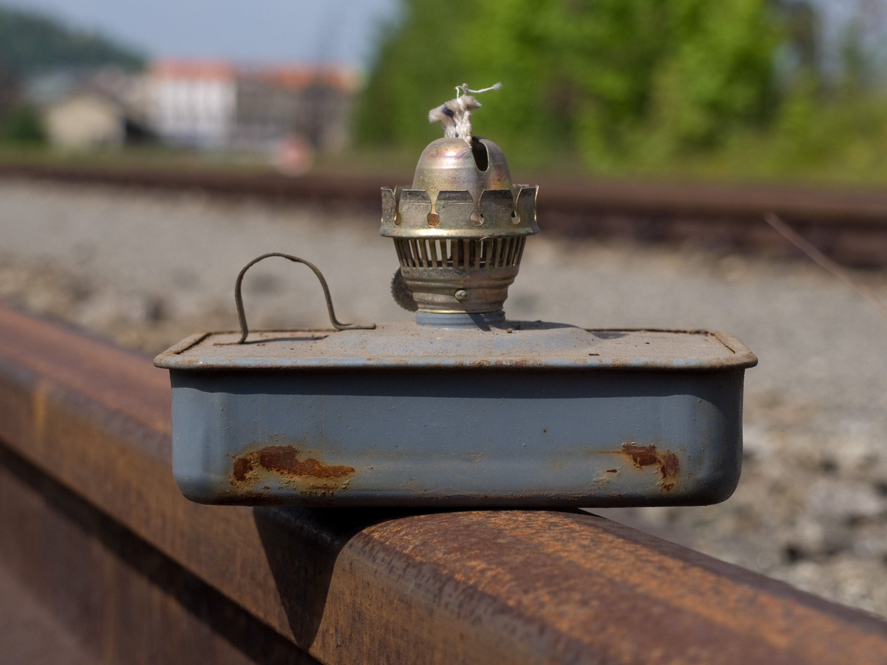 Kerosene/paraffin light, Praha-Smíchov seřaďovací nádraží, Prague, Czech Republic